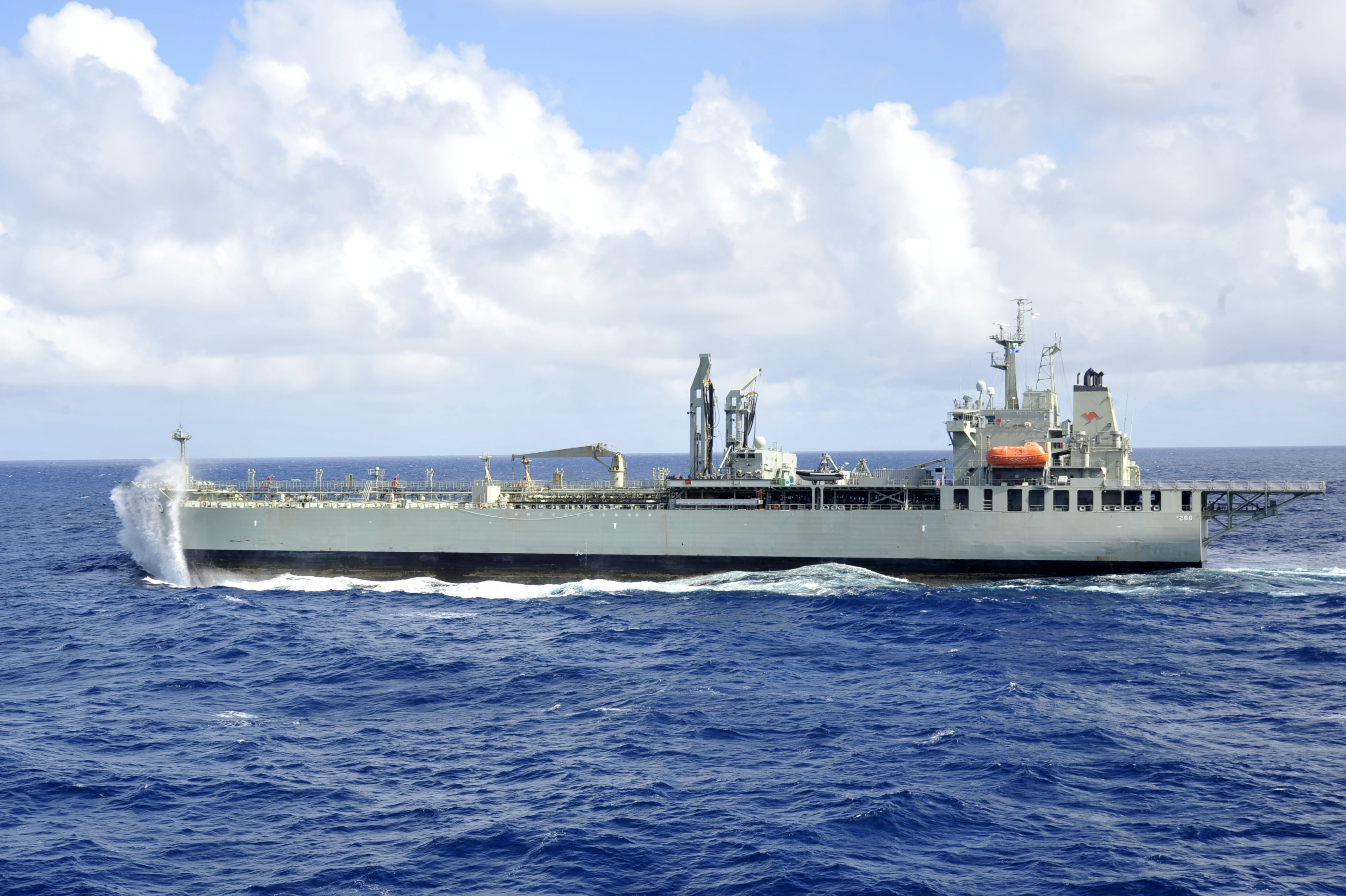 The Australian replenishment tanker HMAS Sirius steams in the Coral Sea after completing a replenishment-at-sea with the forward-deployed amphibious assault ship USS Bonhomme Richard. Bonhomme Richard is the flagship for the Bonhomme Richard Amphibious Ready Group, and with the embarked 31st Marine Expeditionary Unit is participating in the biennial combined-joint exercise Talisman Saber 2013 in the U.S. 7th Fleet Area of Responsibility.